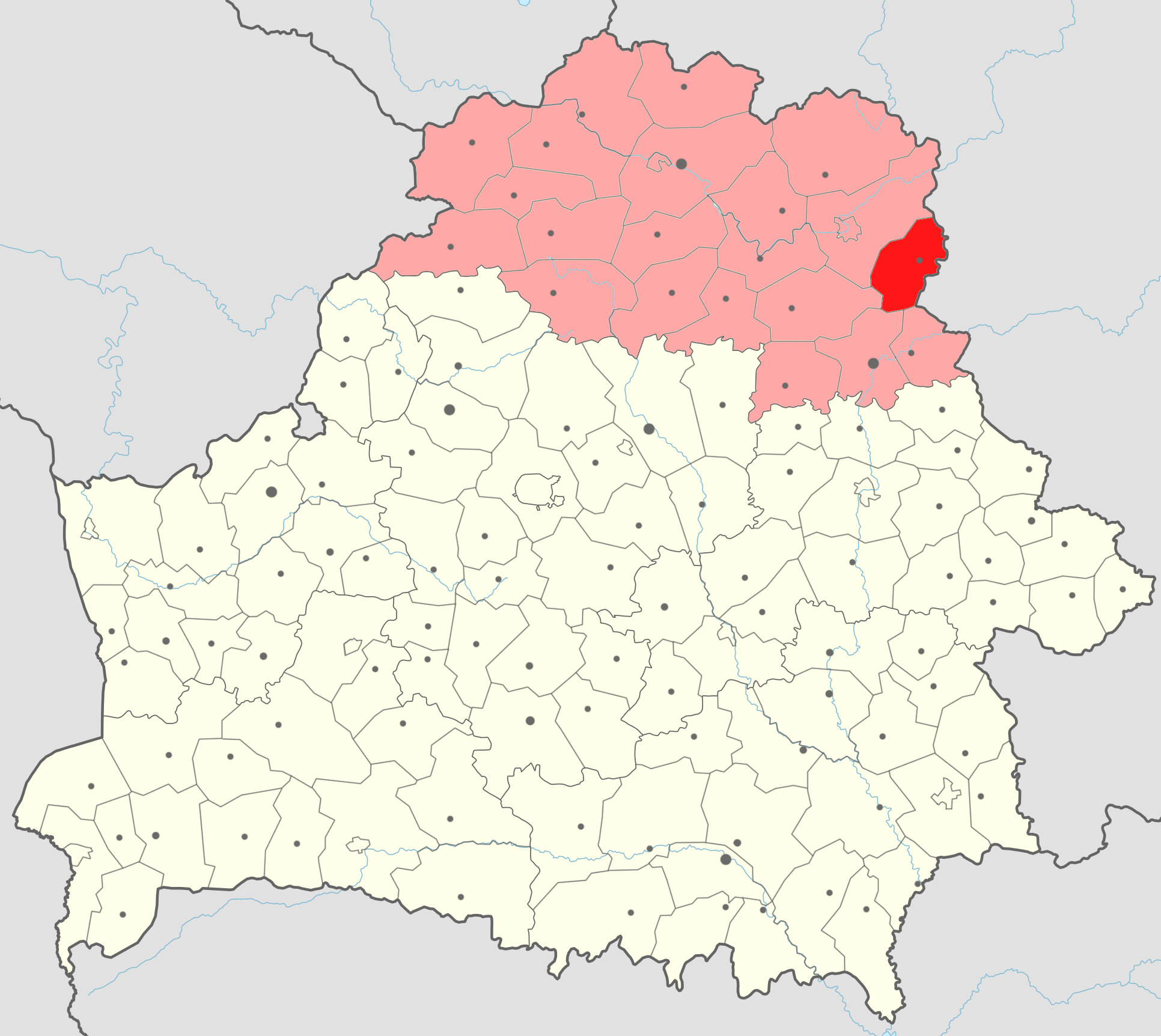 Map of Lioznienski raion (in red) with Viciebskaja voblast' (in light red) on the map of Belarus.